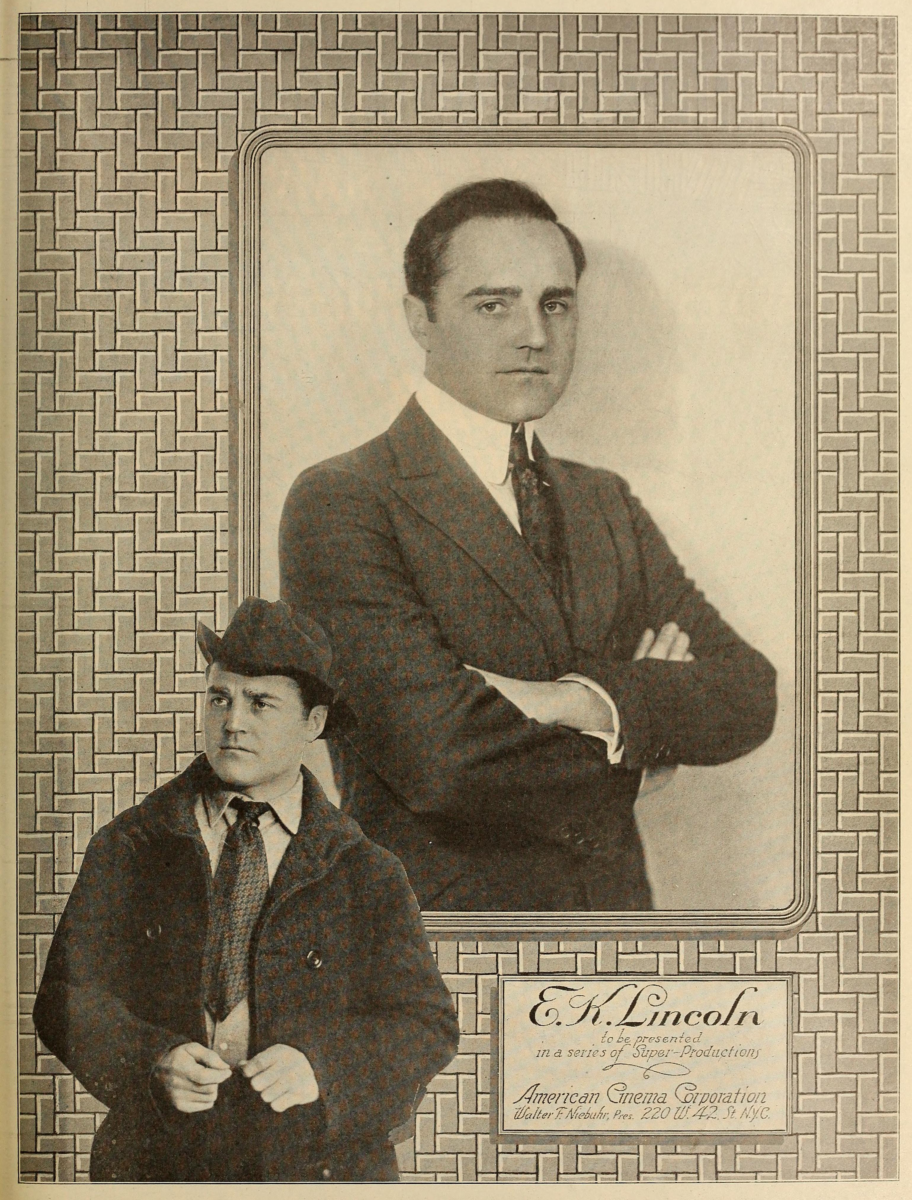 Advertisement in Moving Picture News with E.K. Lincoln